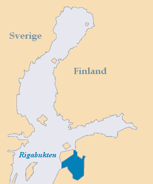 Bay of Riga